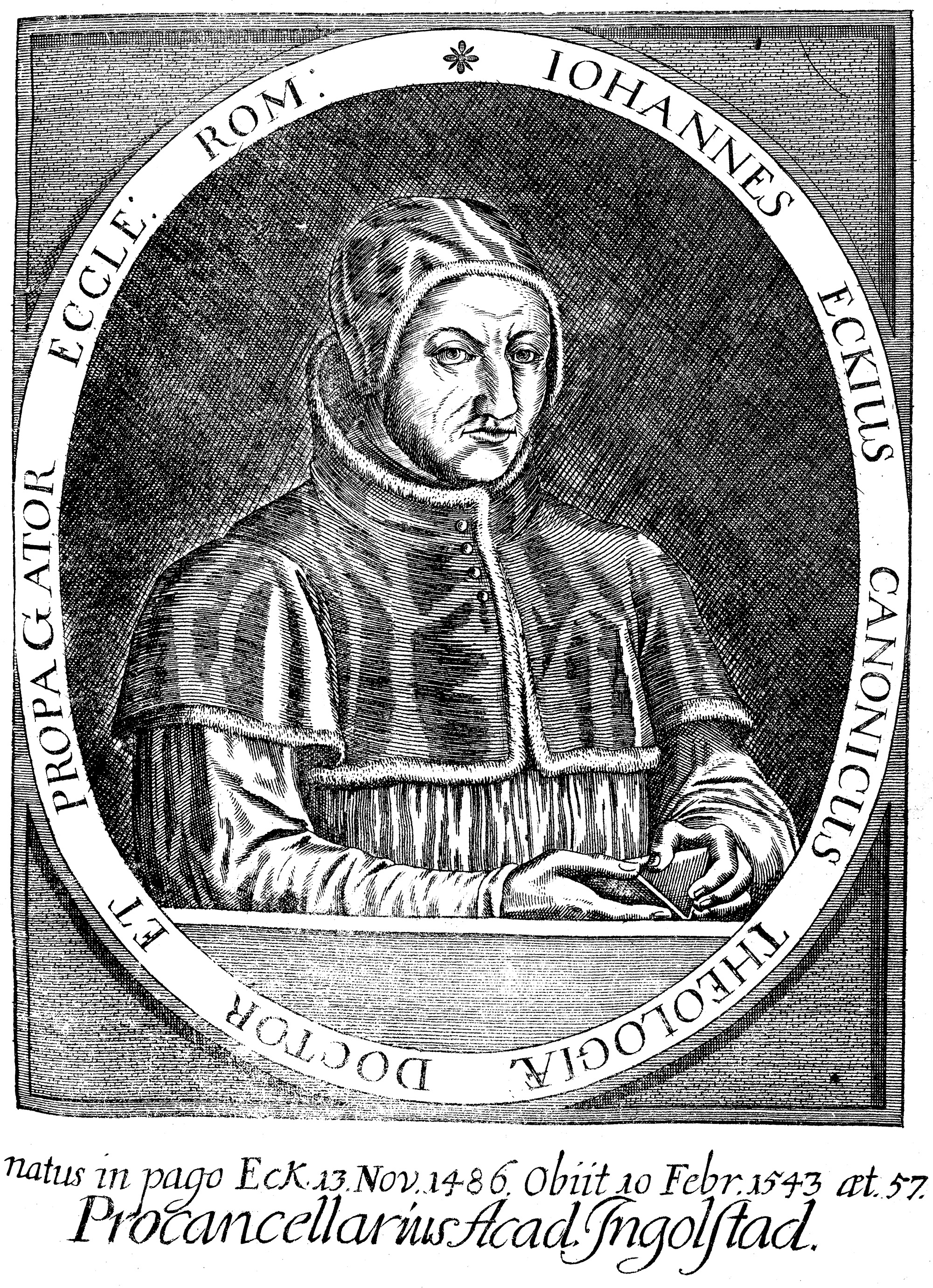 Portrait of Johann Eck (1486–1543), a Catholic theologian who opposed Martin Luther (1483-1546).